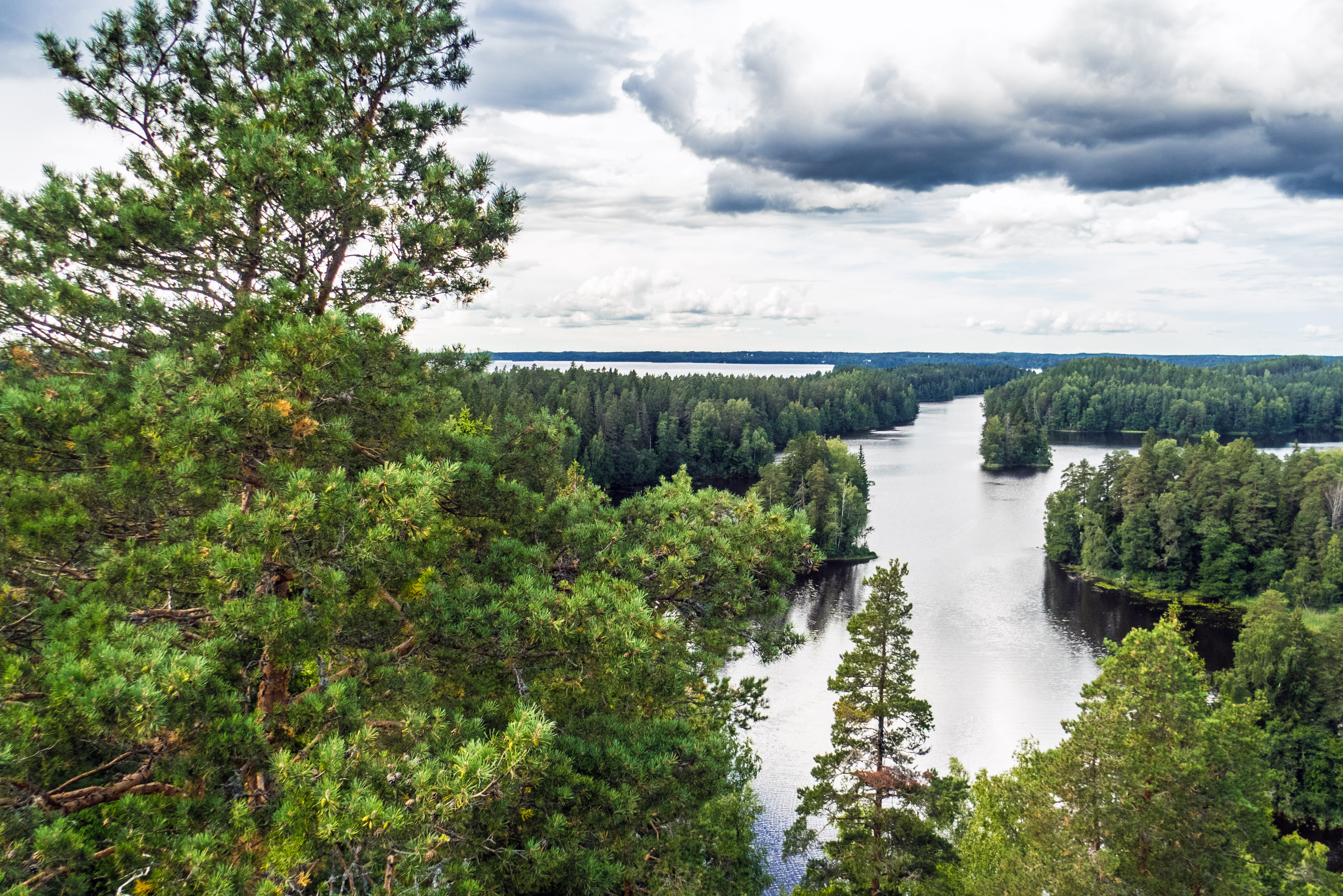 Roughly the same view as in Albert Edelfelt's sunset painting.